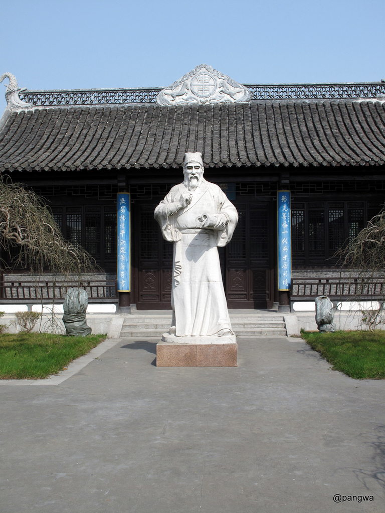 Statue of Shi Naian, in the Memorial of Shi Naian, Dafeng, Yancheng, Jiangsu, China